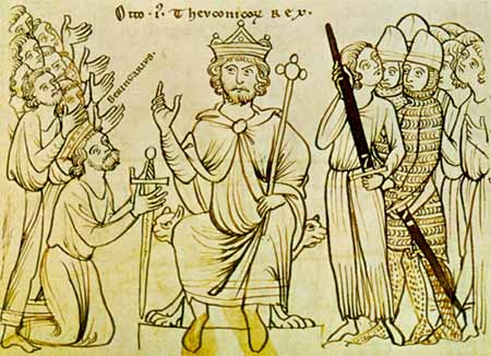 Otto I, Holy Roman Emperor, Manuscriptum Mediolanense (Chronicle of Bishop Otto of Freising), ca. 1200